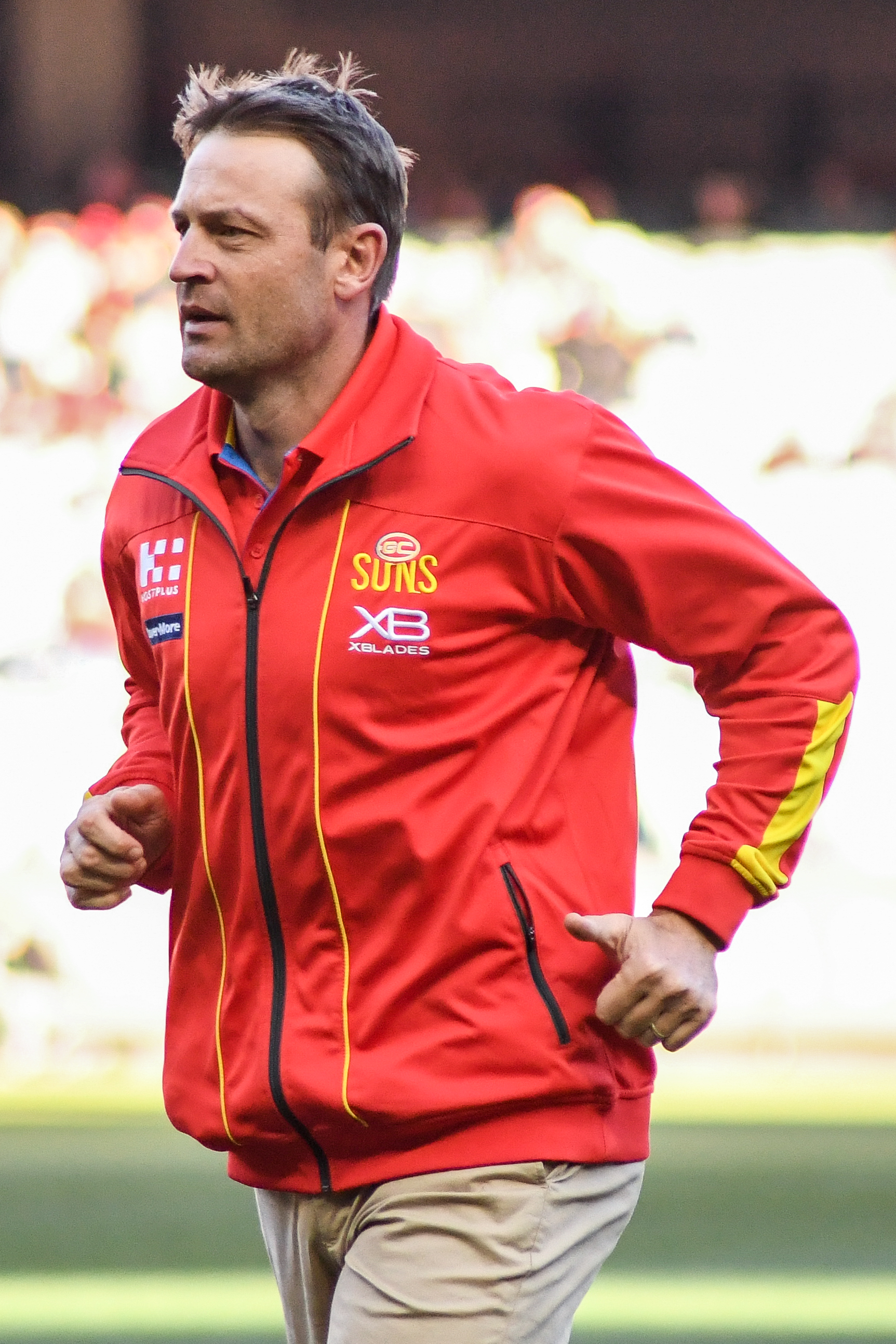 Matthew Primus of Gold Coast during the 2018 AFL round 20 match between Melbourne and Gold Coast at the Melbourne Cricket Ground on Sunday, 5 August 2018 in Melbourne, Victoria.